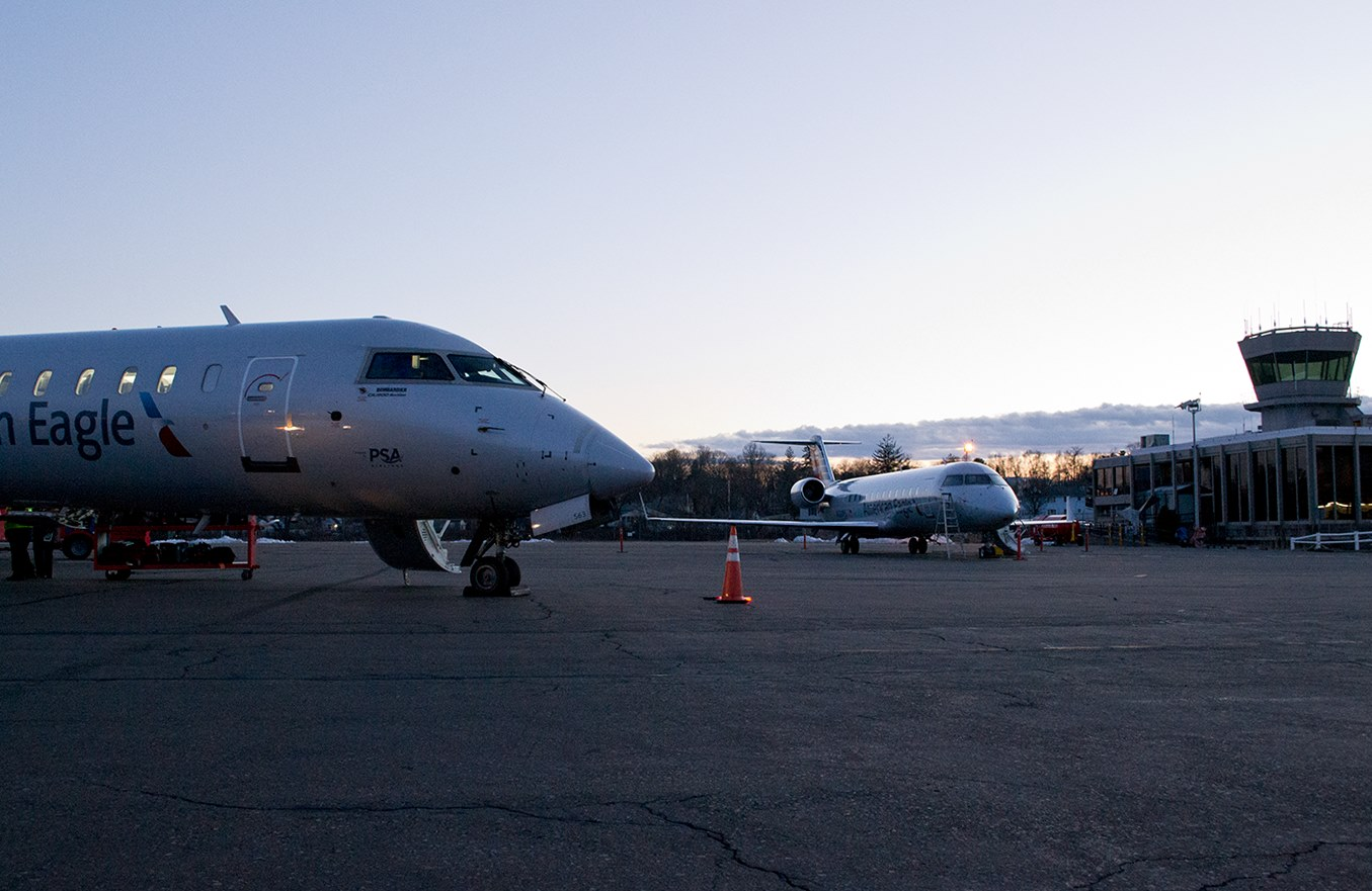 A CRJ-900 and CRJ-200 share ramp space during an evening turn on 3/25/2018.